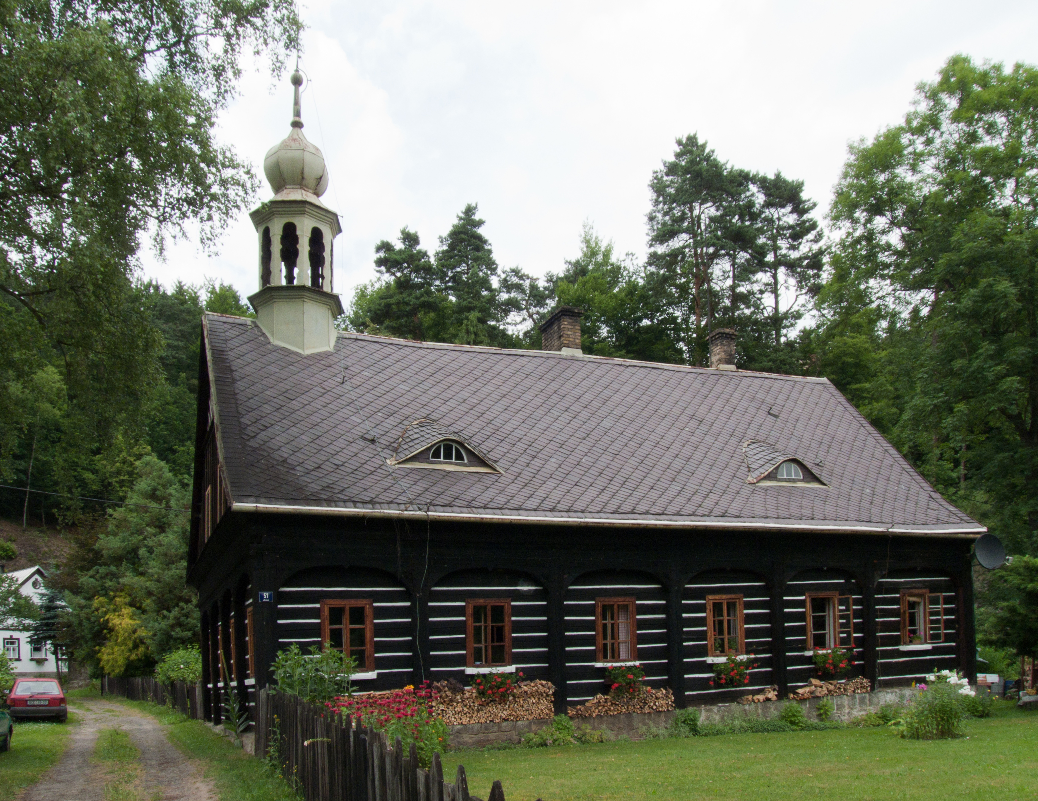 House No 51 with a bell tower in the village of Všemily, Děčín District, Czech Republic - a former school